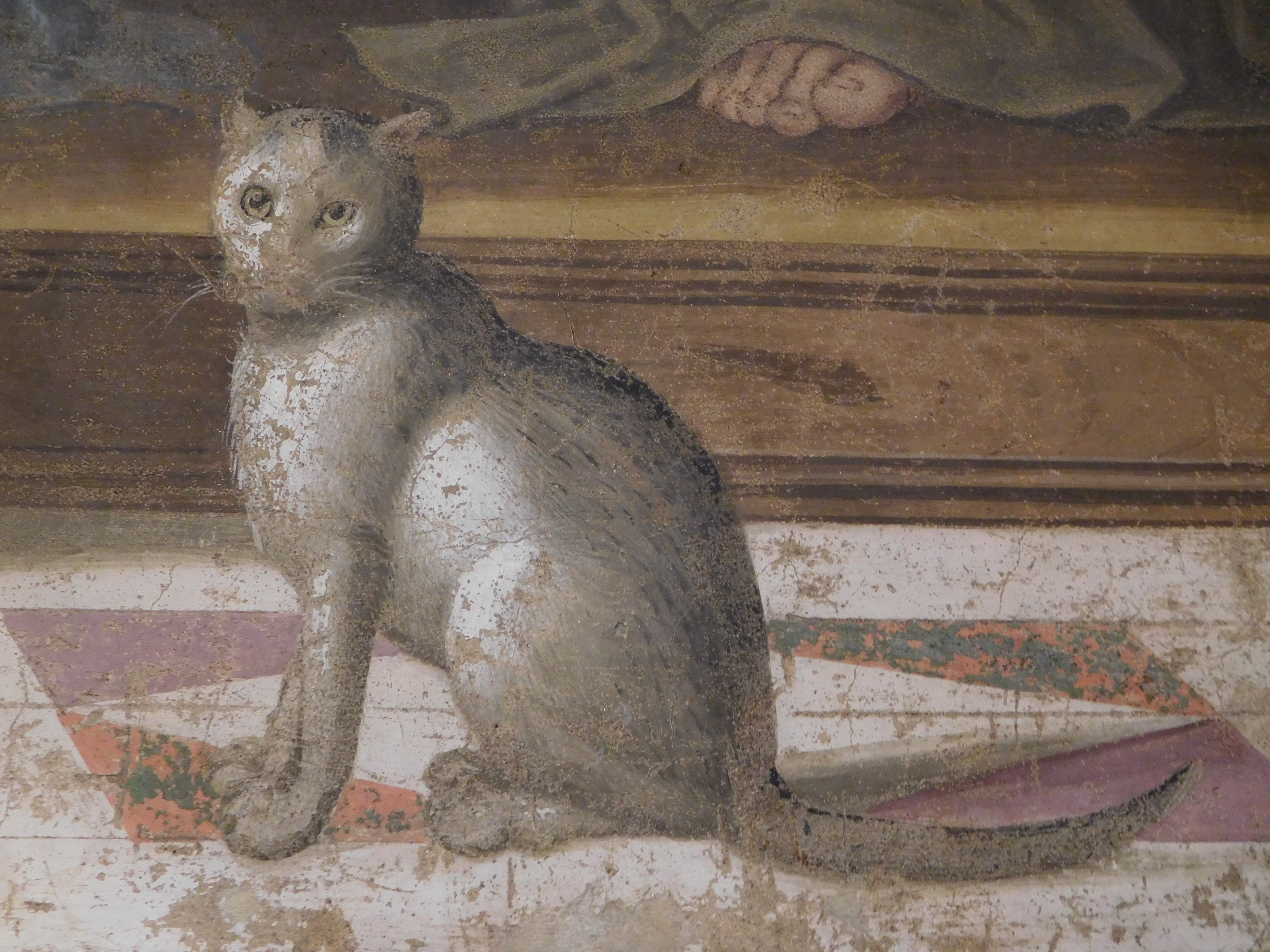 Detail of Cat in Ghirlandaio's Last Supper fresco, Refectory, San Marco, Florence